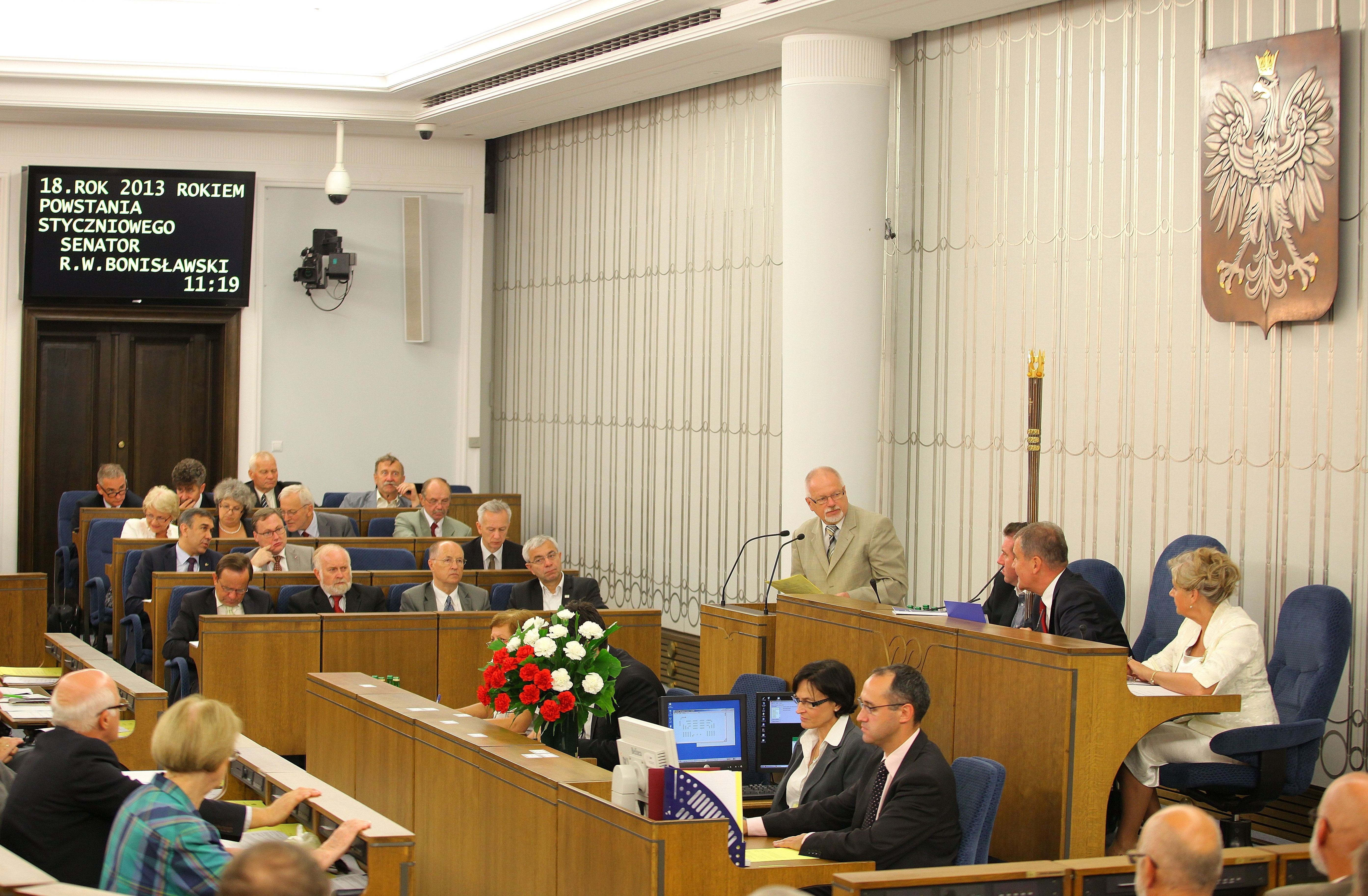 Senator Ryszard Bonisławski. 17th sitting of the Polish Senate